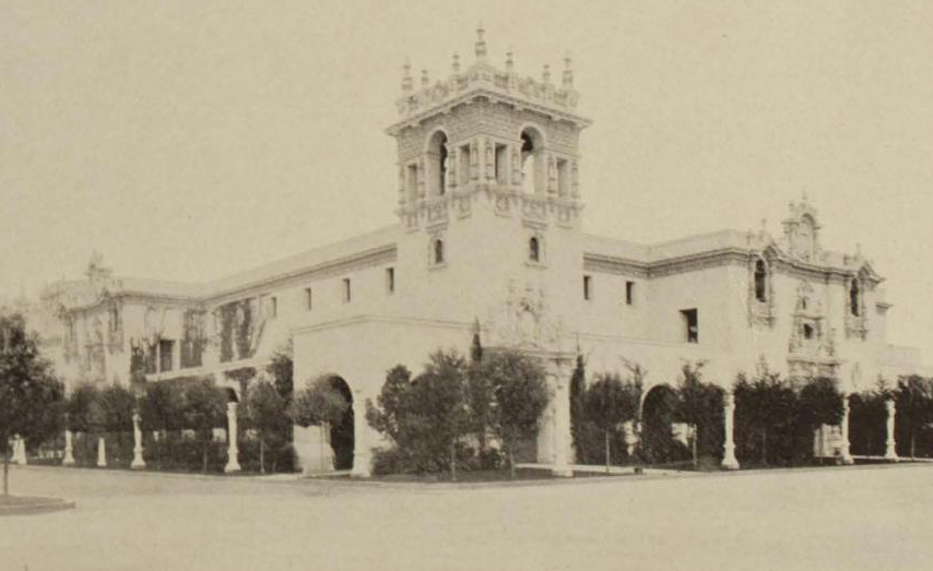 Foreign and Domestic Arts Building, located on the Plaza de Panama during the 1915 Panama-California Exposition in Balboa Park, San Diego, California.